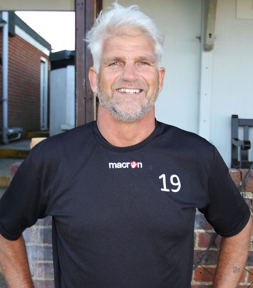 Peter Heritage was a professional footballer for Gillingham, Hereford United and Doncaster Rovers. Also played for non-league teams such as Tonbridge Angels, Hastings United, Margate and Hythe Town. He later went into coaching and management. As of July 2020 he is coaching at Hastings United.